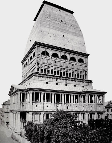 Mole Antonelliana in 1875. First built to be a synagogue, it has been sold to the town of Turin and finished with a 167 m high spire